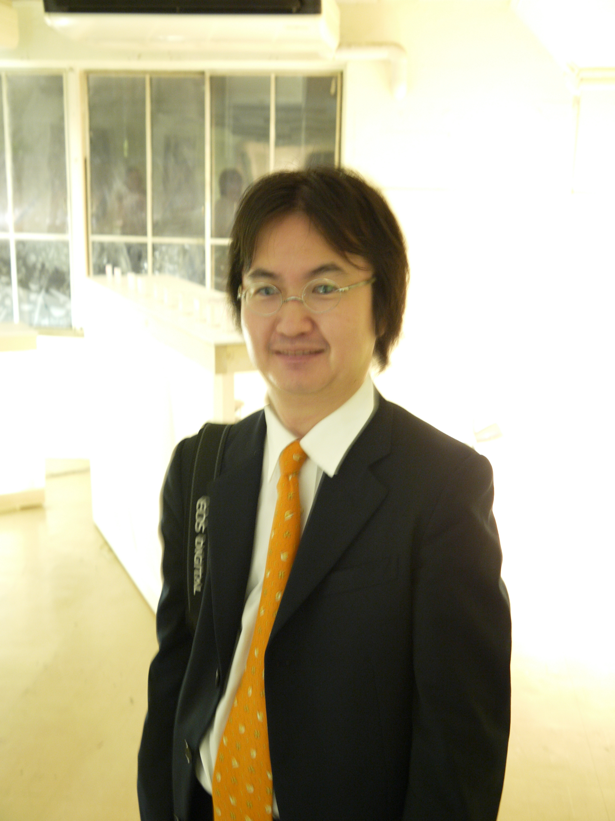 Tomohiro Okada, organizer of Electrical Fantasista artshow, P2000150